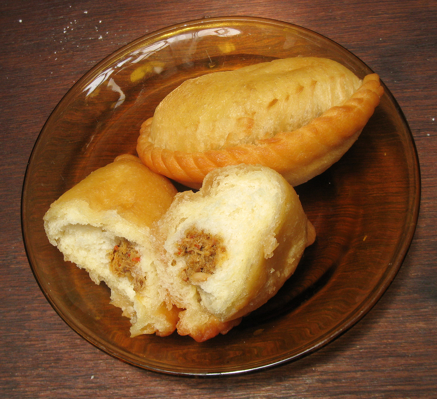 Panada, a Manado (Minahasan) snack of fried bread with spicy cakalang (small tuna) filling.